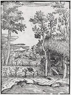 Giovanni Maria Verdizotti's woodcut of "The Birdcatcher and the Lark" from his "100 Moral Fables" (Venice 1570)